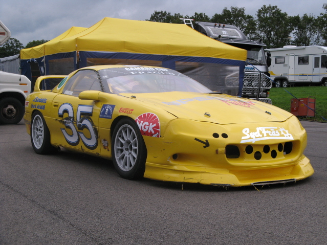 35, Jan Aronsson, Fourth generation Camaro, Ring Knutstorp, Camaro Cup 2007